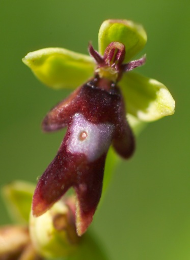 Ophrys insectifera